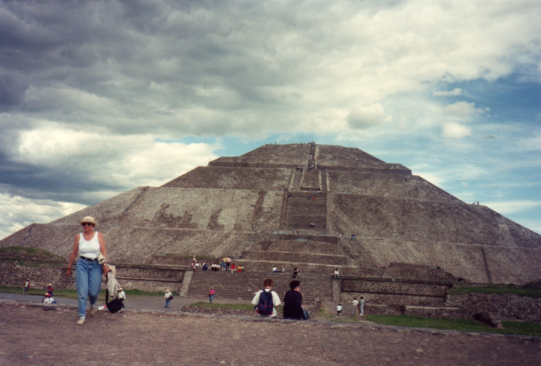 Teotihuacan, The Pyramid of the Sun, 1993